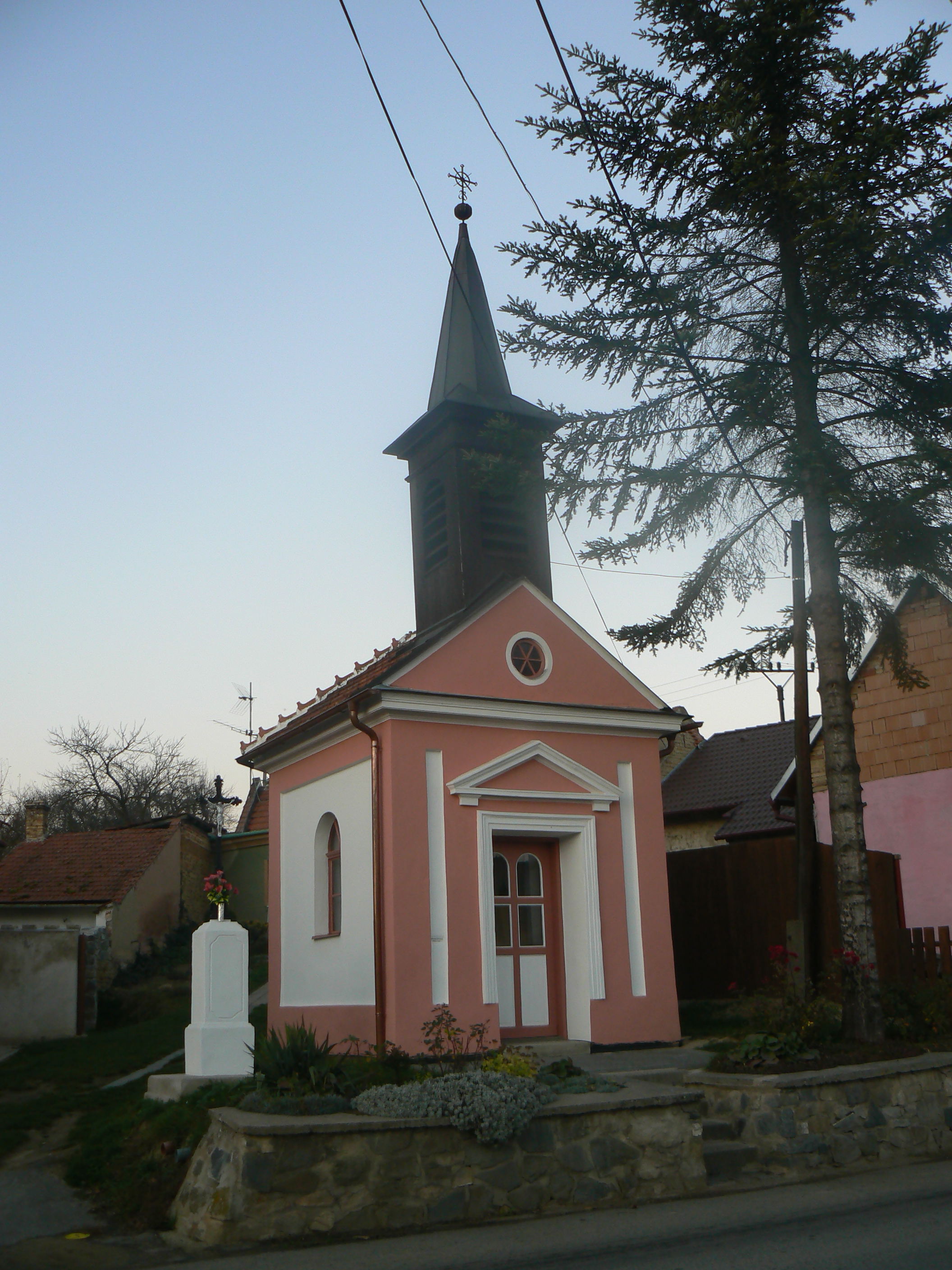 Virgin Mary chapel in Snovídky, Vyškov District, Czech Republic.